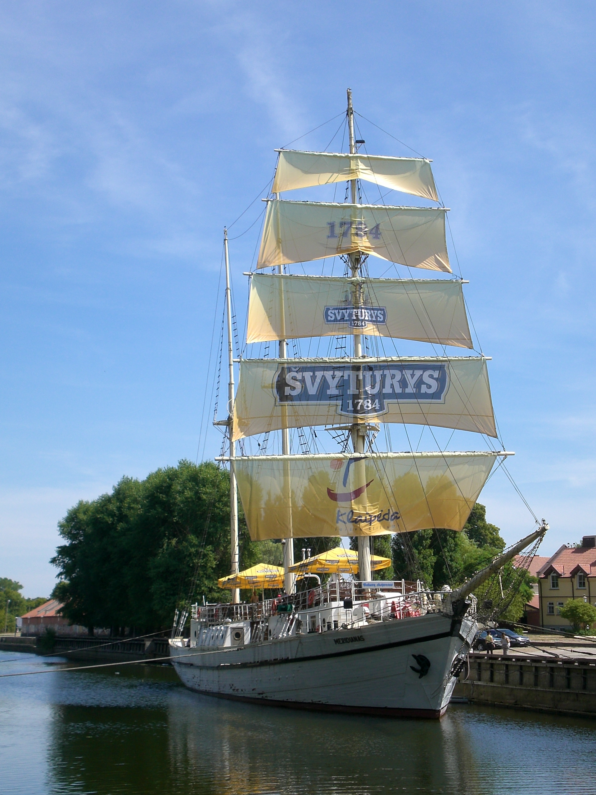 Sailing boat 'Meridianas' in Klaipėda, Lithuania